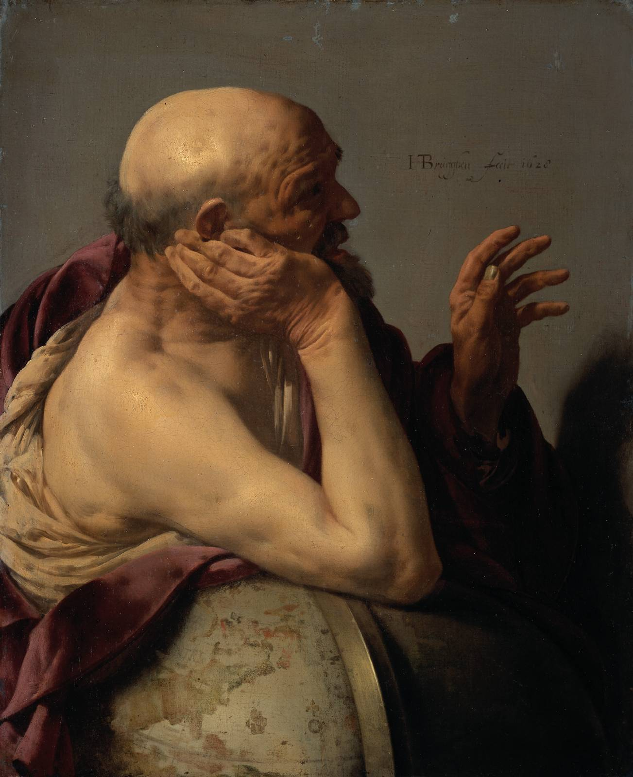 Heraclitus, talking and gesturing while he is leaning on a globe with his right arm.